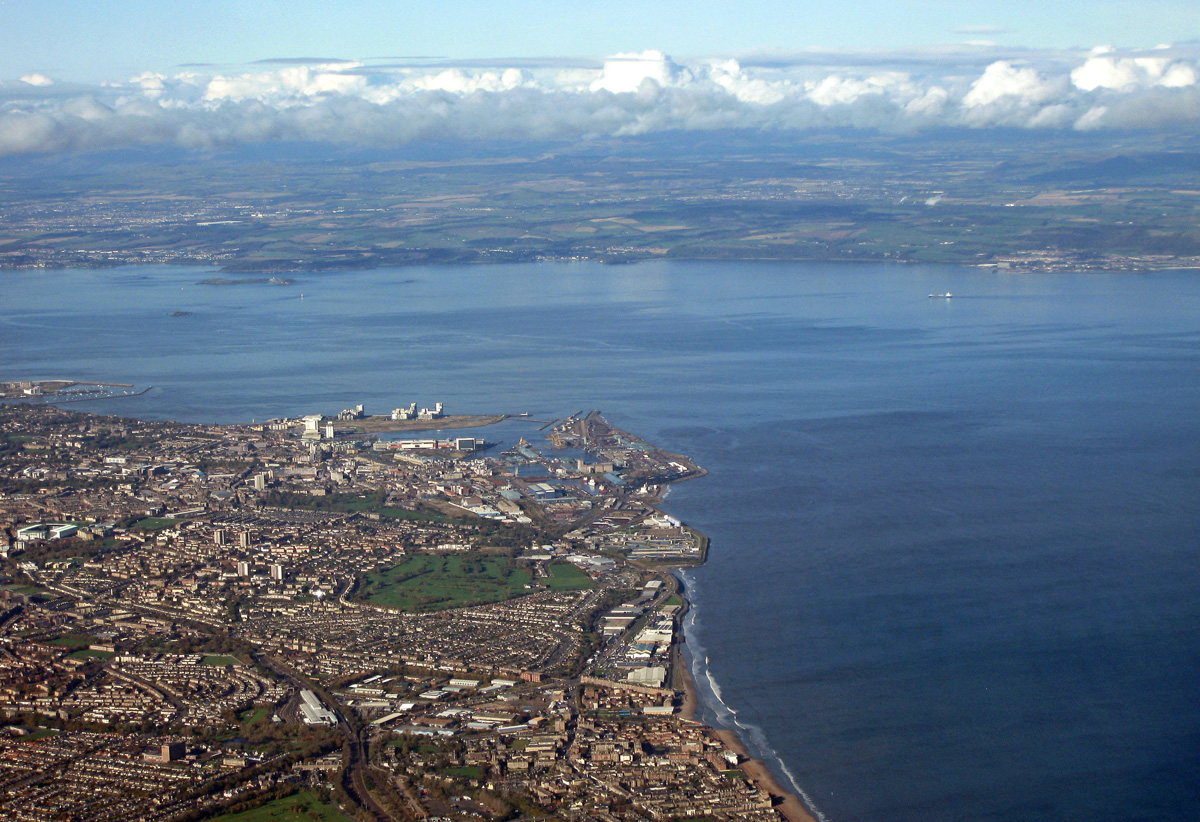 Leith (centre), Edinburgh, Firth of Forth, Fife looking northwest.